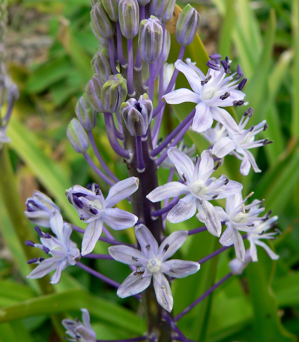 Photo of Scilla hyacinthoides at the University of California Botanical Garden